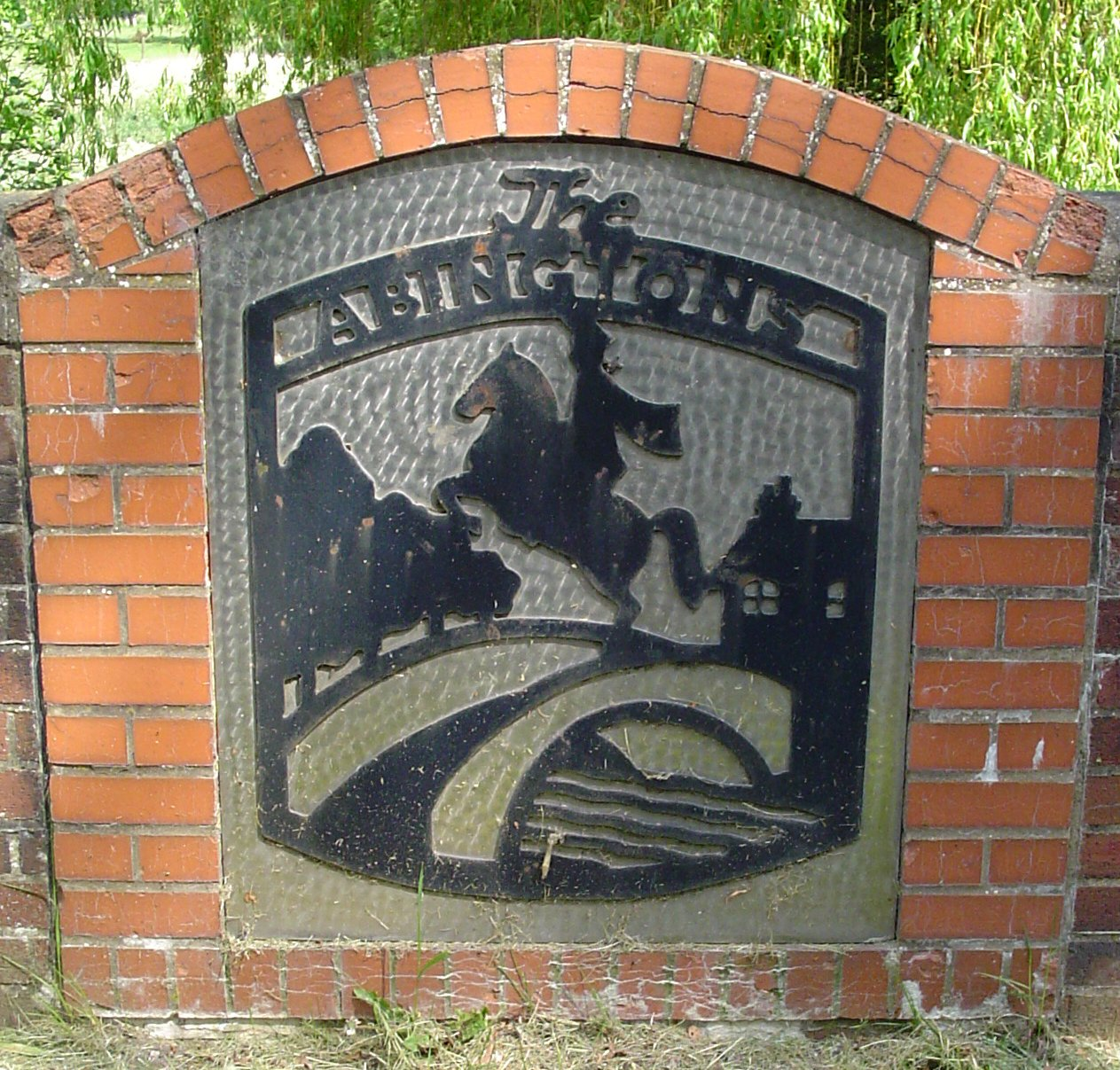 Signpost in Abington, Cambridgeshire